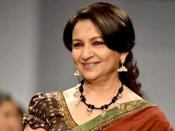 Sharmila Tagore walks the ramp for Joy Mitra at WIFW